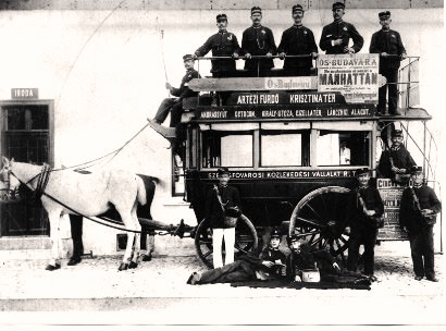 Omnibus ticket inpectors of the Capital Mass Transport Co. on Budapest, 1896